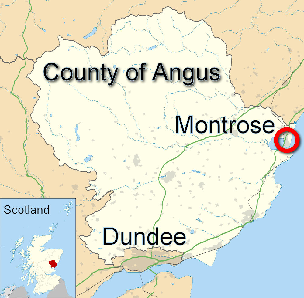 Blank map of Angus, UK with the following information shown: *Administrative borders *Coastline, lakes and rivers *Roads and railways *Showing location of Montrose:Urban areas Equirectangular map projection on WGS 84 datum, with N/S stretched 180% Geographic limits: *West: 3.5W *East: 2.4W *North: 57.0N *South: 56.4N